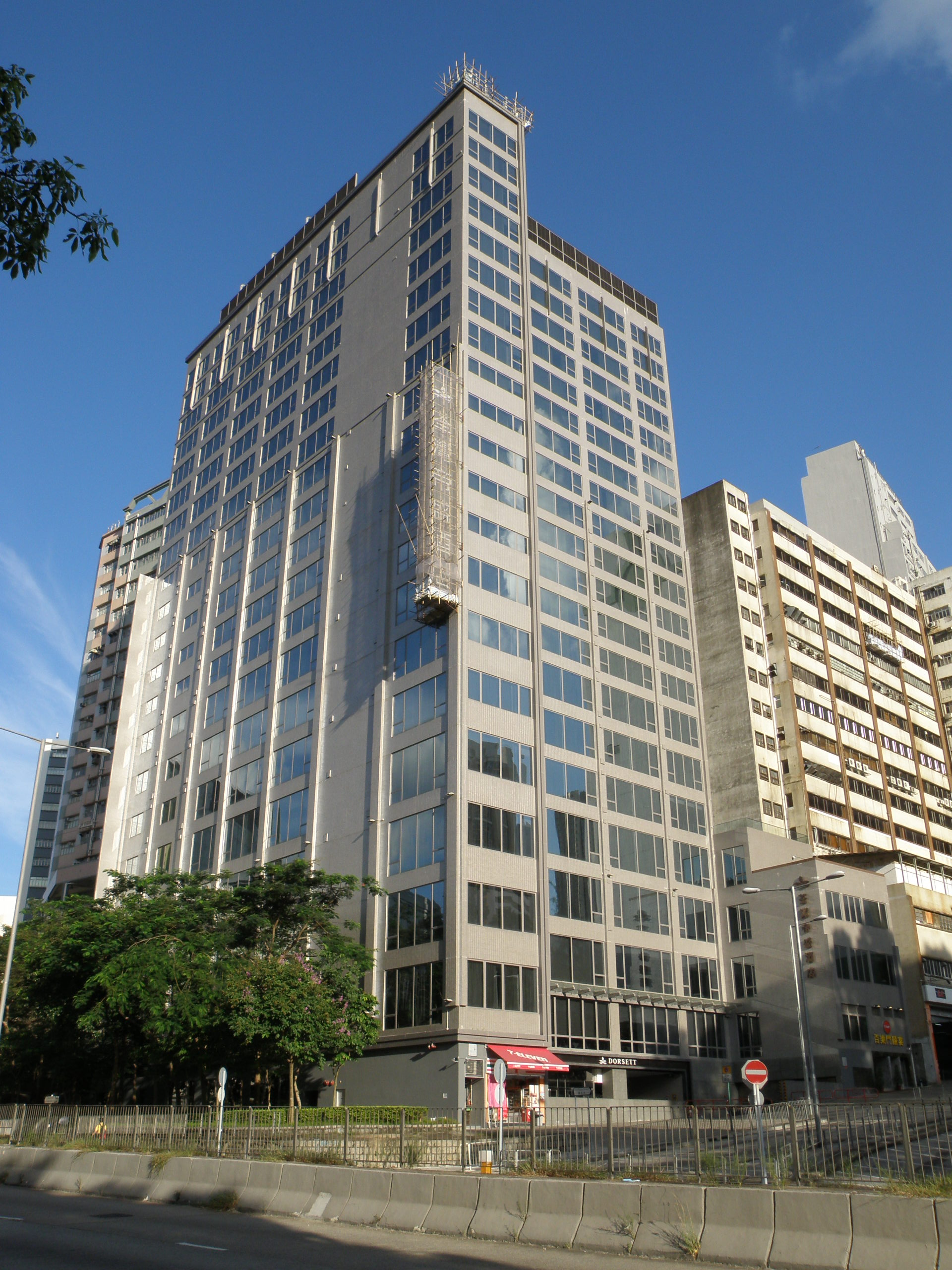 Dorsett Regency hotel in Tsuen Wan, Hong Kong.